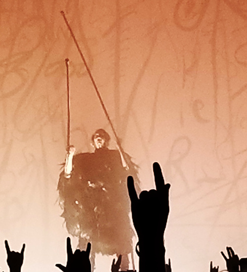 Marilyn Manson performing live at the Hammerstein Ballroom in New York on September 30, 2017. Manson was injured in a stage prop accident about an hour into this show, which is discussed in the Heaven Upside Down article; the rest of the show was canceled.